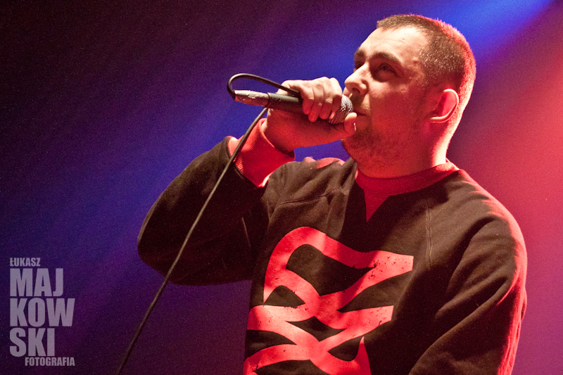 Polish rapper Sokół